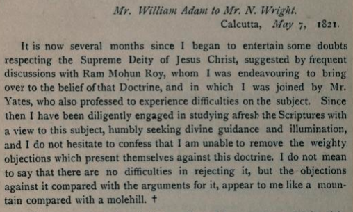 William Adam's letter to Mr. N. Wright on Ram Mohan Roy, as published in The life and letters of Raja Rammohun Roy, by Collet, Sophia Dobson, 1822-1894